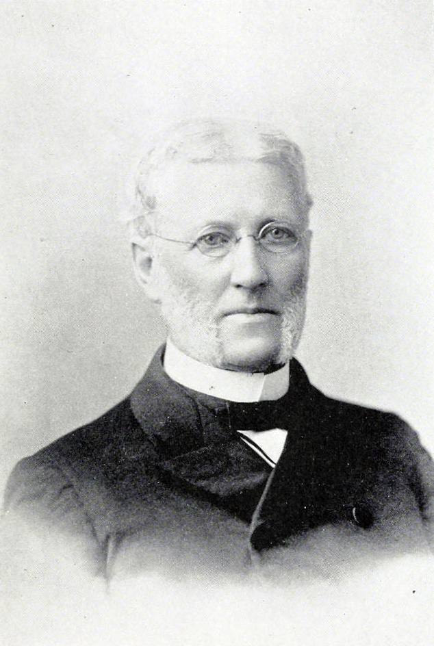 A portrait of Blackford Condit, retired Presbyterian minister in Terre Haute, Indiana and owner of the Condit House, on the National Register of Historic Places in Vigo County, Indiana. Taken from the book Art souvenir of representative men, public buildings, private residences, business houses, and points of interest in Terre Haute, Ind. (1894), published by the Kelly Brothers. Original caption says, "From photo by BIEL. Blackford Condit, D. D., Retired Presbyterian Minister."